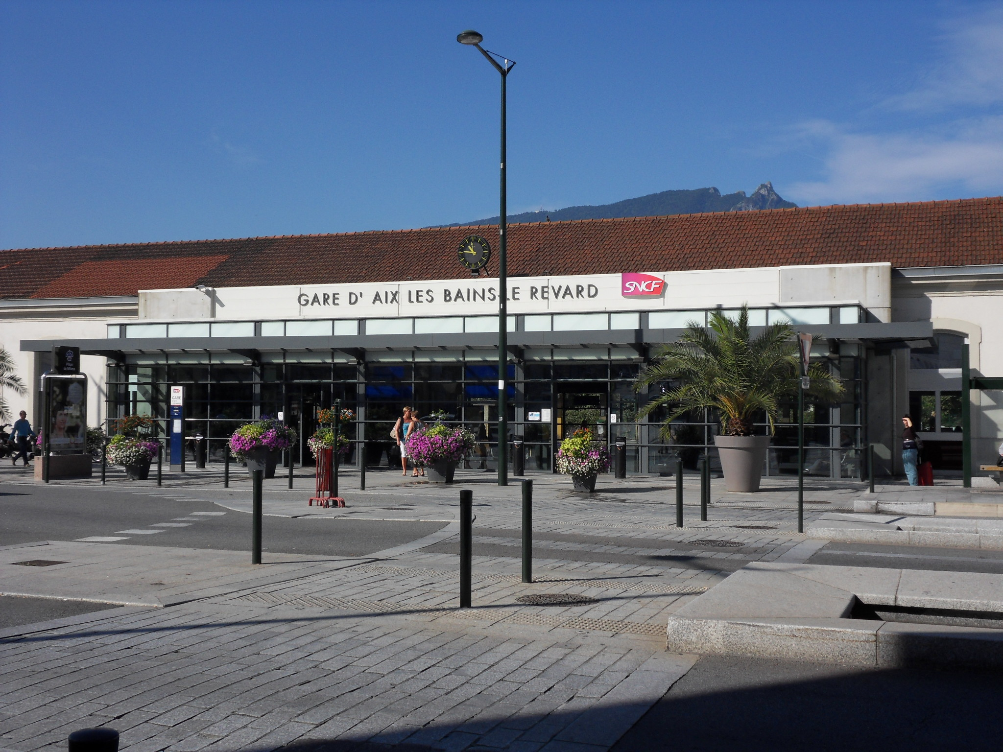 Front of the French station of Aix-les-Bains in Savoie.